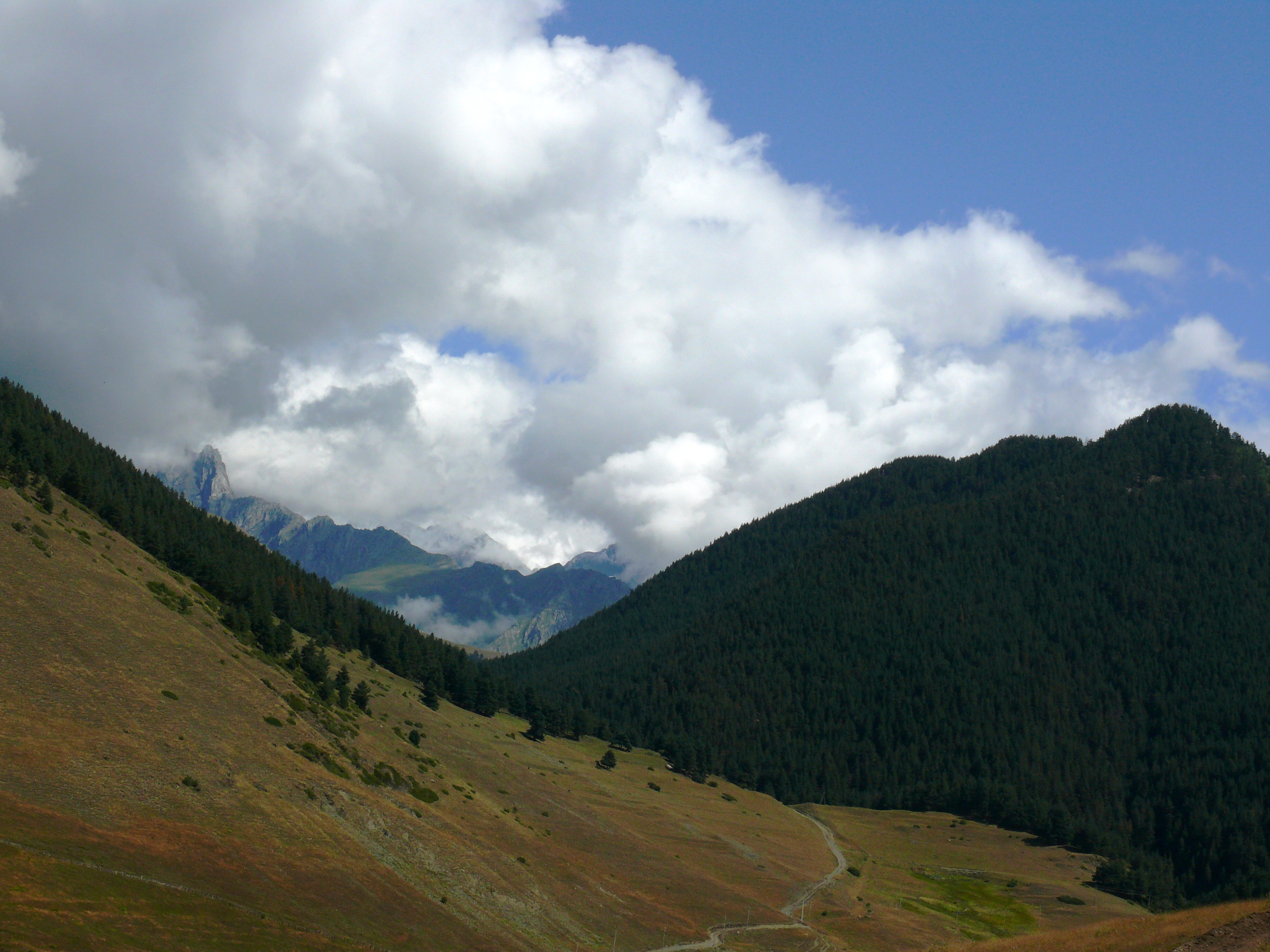 Thusheti